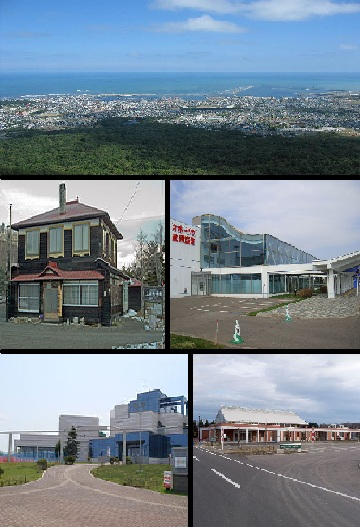 Monbetsu montage